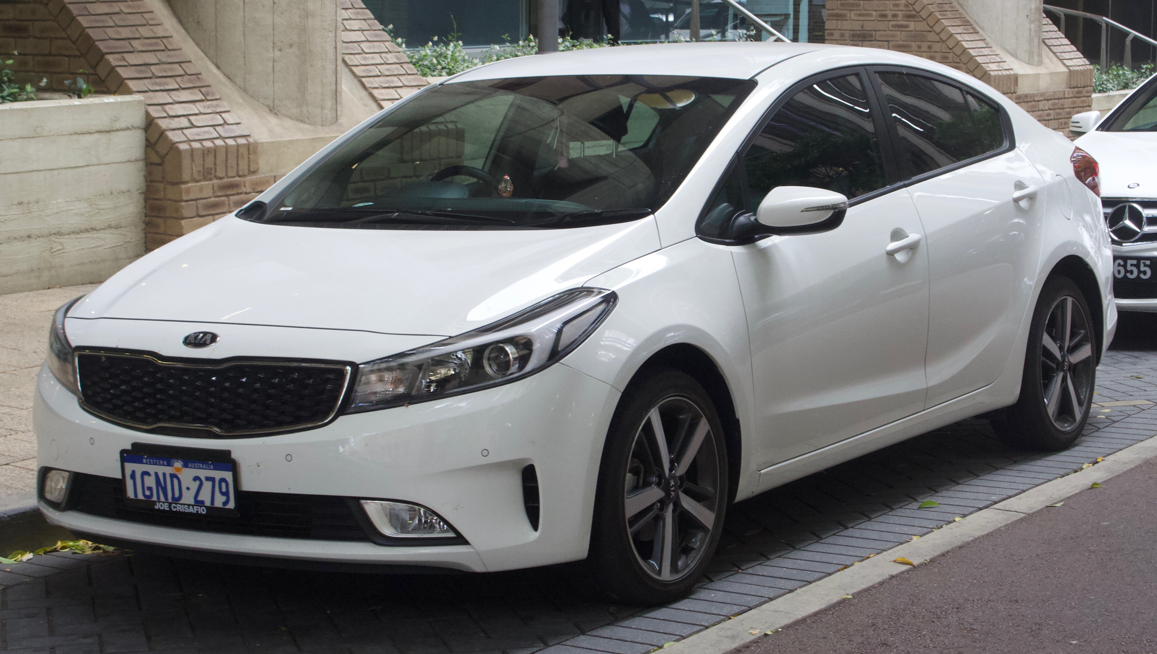 2018 Kia Cerato (YD MY18) Sport sedan. Photographed in Perth, Western Australia, Australia.